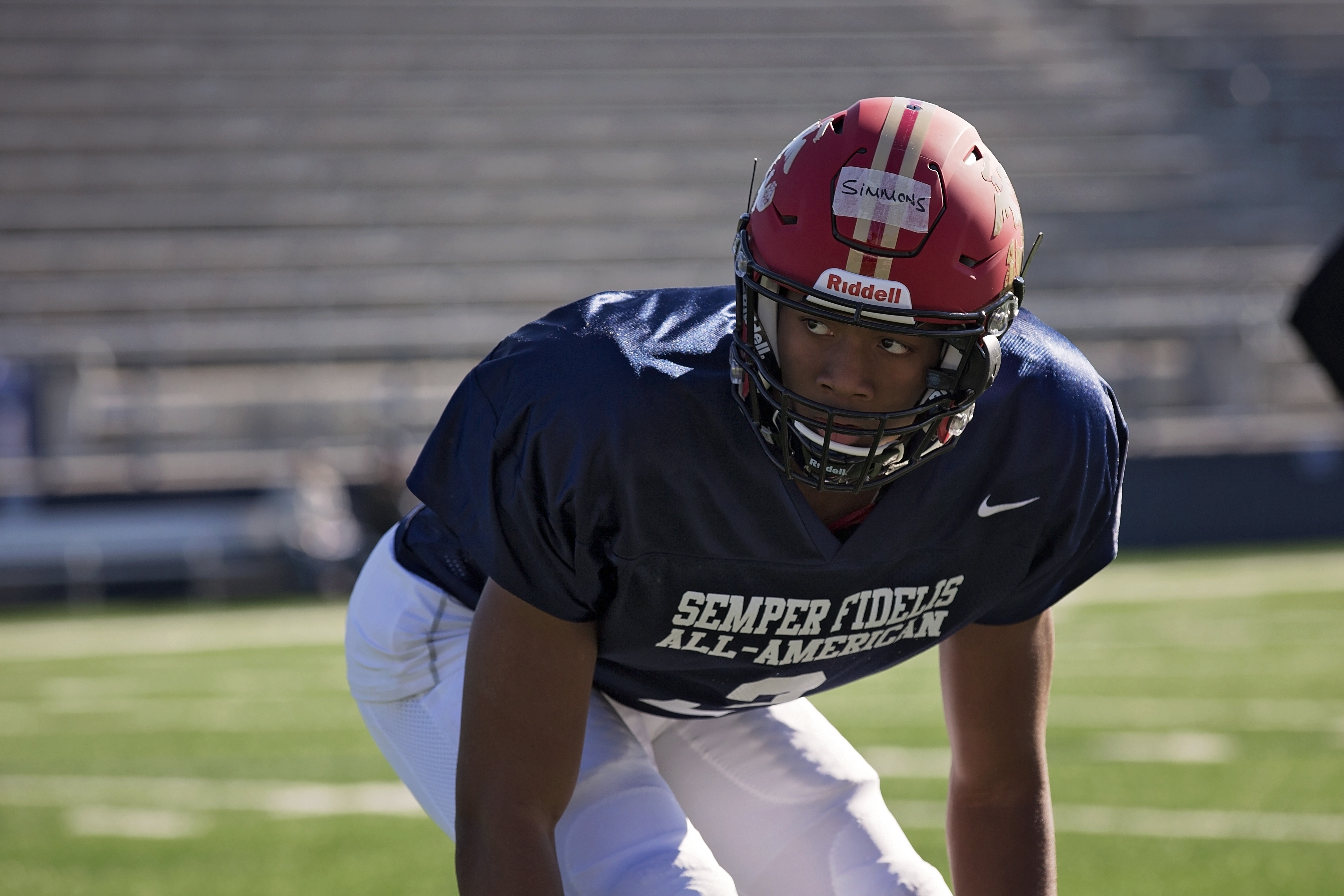 Isaiah Simmons, safety from Olathe North High school, Olathe, Kan., waits for the snap of the football during practice at Orange Coast College, Costa Mesa, Calif., Jan. 2, 2016. High School athletes chosen to play in the Semper Fidelis All-American Bowl are well-rounded individuals on and off the field who not only are distinguished athletes, but also have academic achievements and display exemplary moral character. (U.S. Marine Corps photo by Sgt. Rebecca Eller) Unit: 8th Marine Corps District DVIDS Tags: Marine Corps; Marines; All-American; Semper Fidelis Bowl; Semper Fi Bowl; SFAAB; Semper Fidelis Football; Semper Fi football